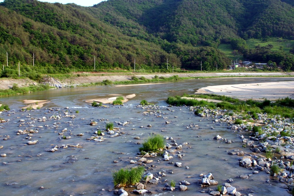 A rural scenery of Gyeongsangbuk-do, South Korea on May 26, 2007.